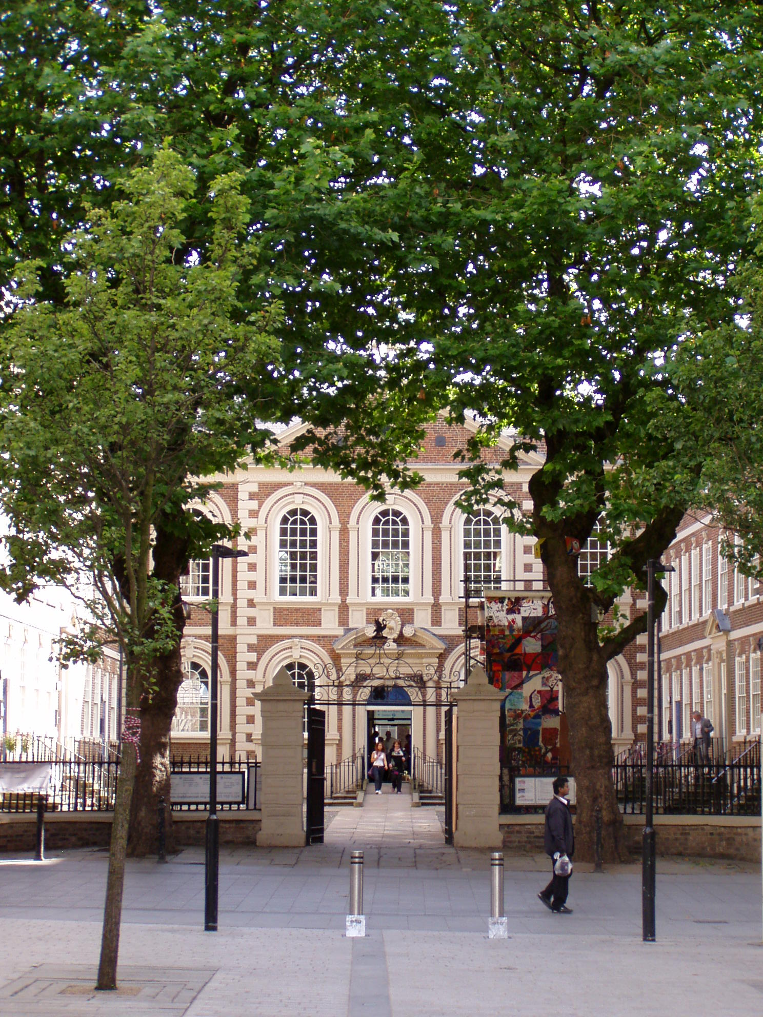 Liverpool Bluecoat School